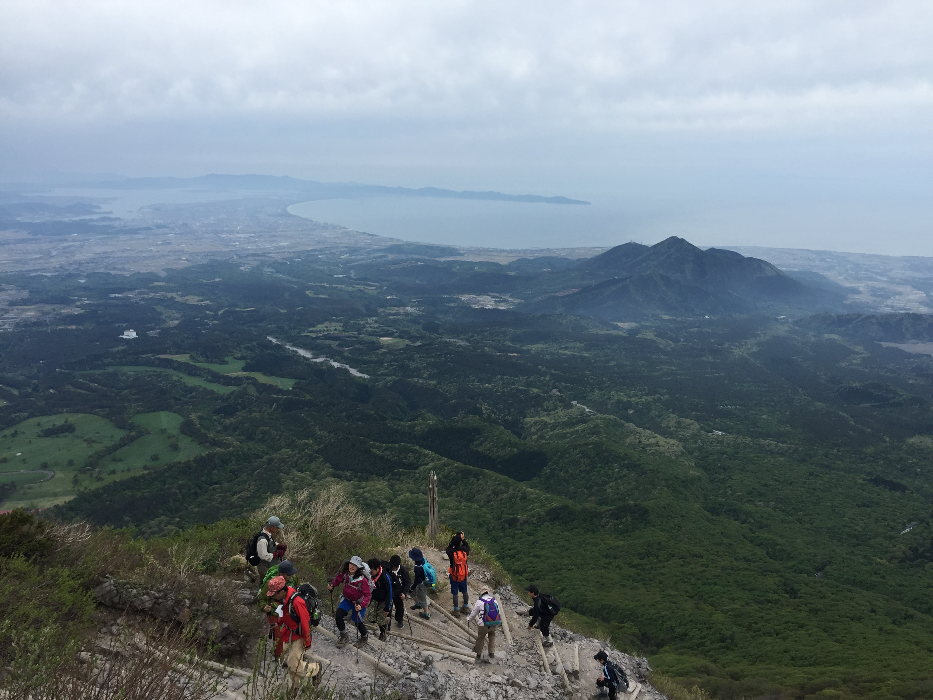 Looking northwest from Mount Daisen in Tottori prefecture, Japan.